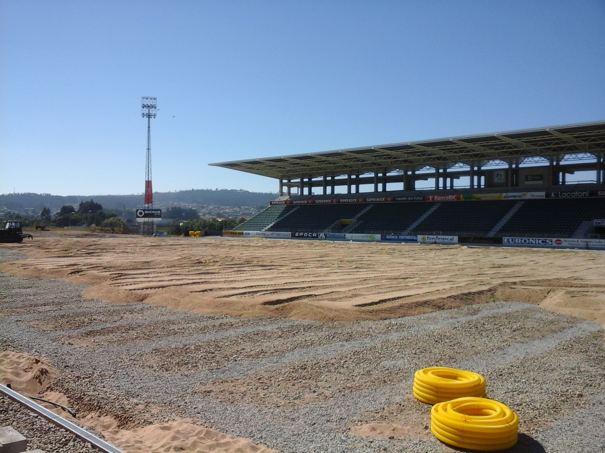 Mata Real em obras